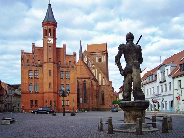 The place "Großer Markt" in Perleberg, Germany.